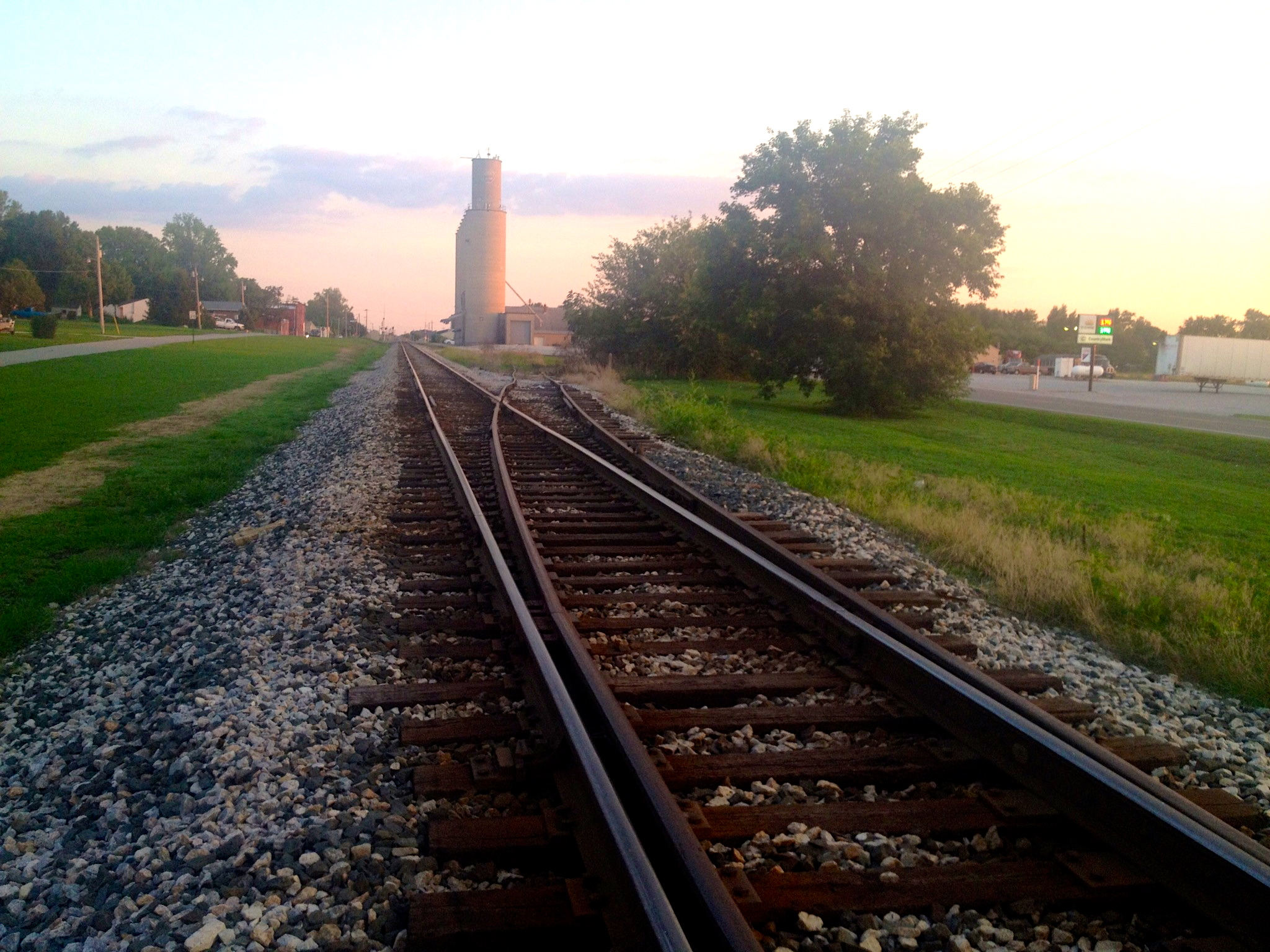 A south-facing view of the Chalmers, Indiana railway. Grain elevators are in the background.